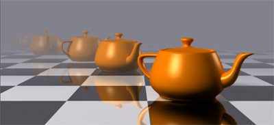 This computer generated image tries to show distance fog effect in a wikipedia article.